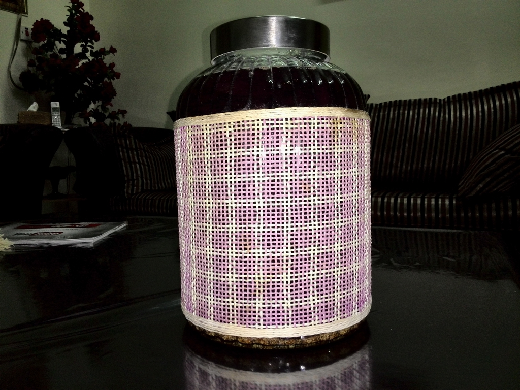 Kanji (drink) 7